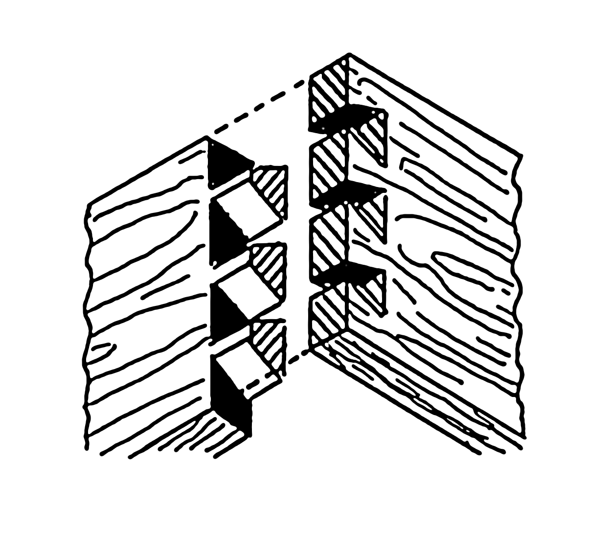 Line art drawing of a dovetail joint.